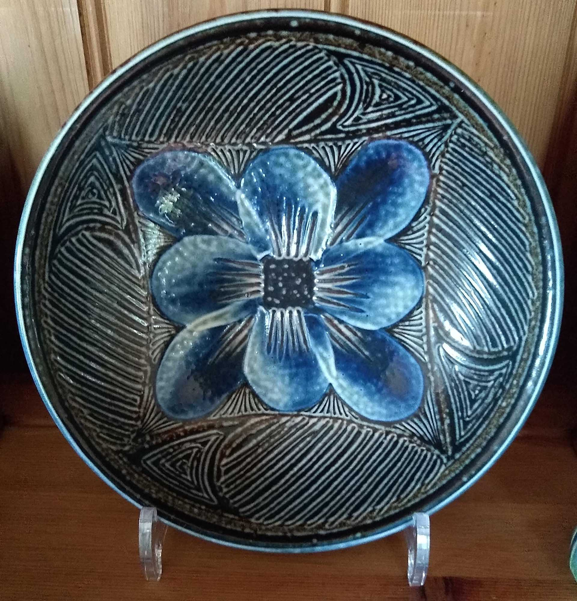 A Doulton Lambeth bowl designed and modelled by Agnete Hoy circa 1956.